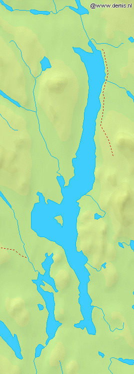 Femund, a lake in Norway. Bounding box West 11.6°, South 61.85°, East 12.1°, North 62.5°. Center at 62°10′30″N 11°51′00″E / 62.17500°N 11.85000°E.